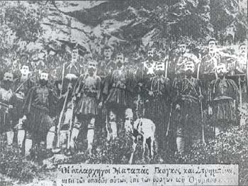 Matapas, Gogos, Stribinos